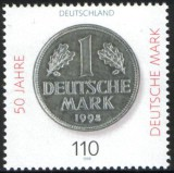 Stamp from Deutsche Post AG from 1998, 50th anniversary of Deutsche Mark